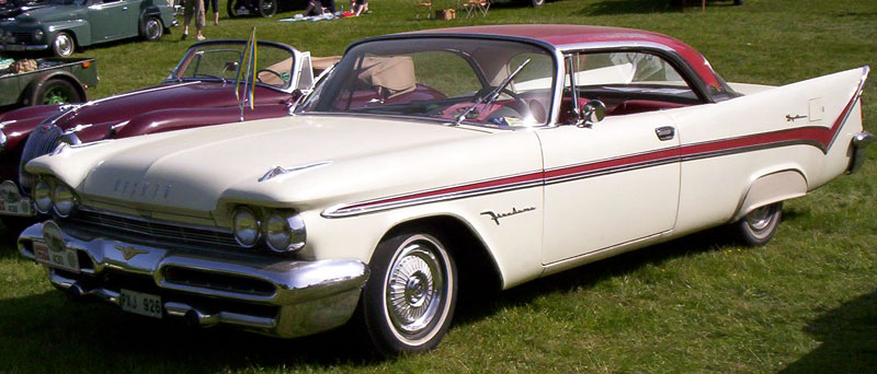 De Soto Firedome Sports 1959